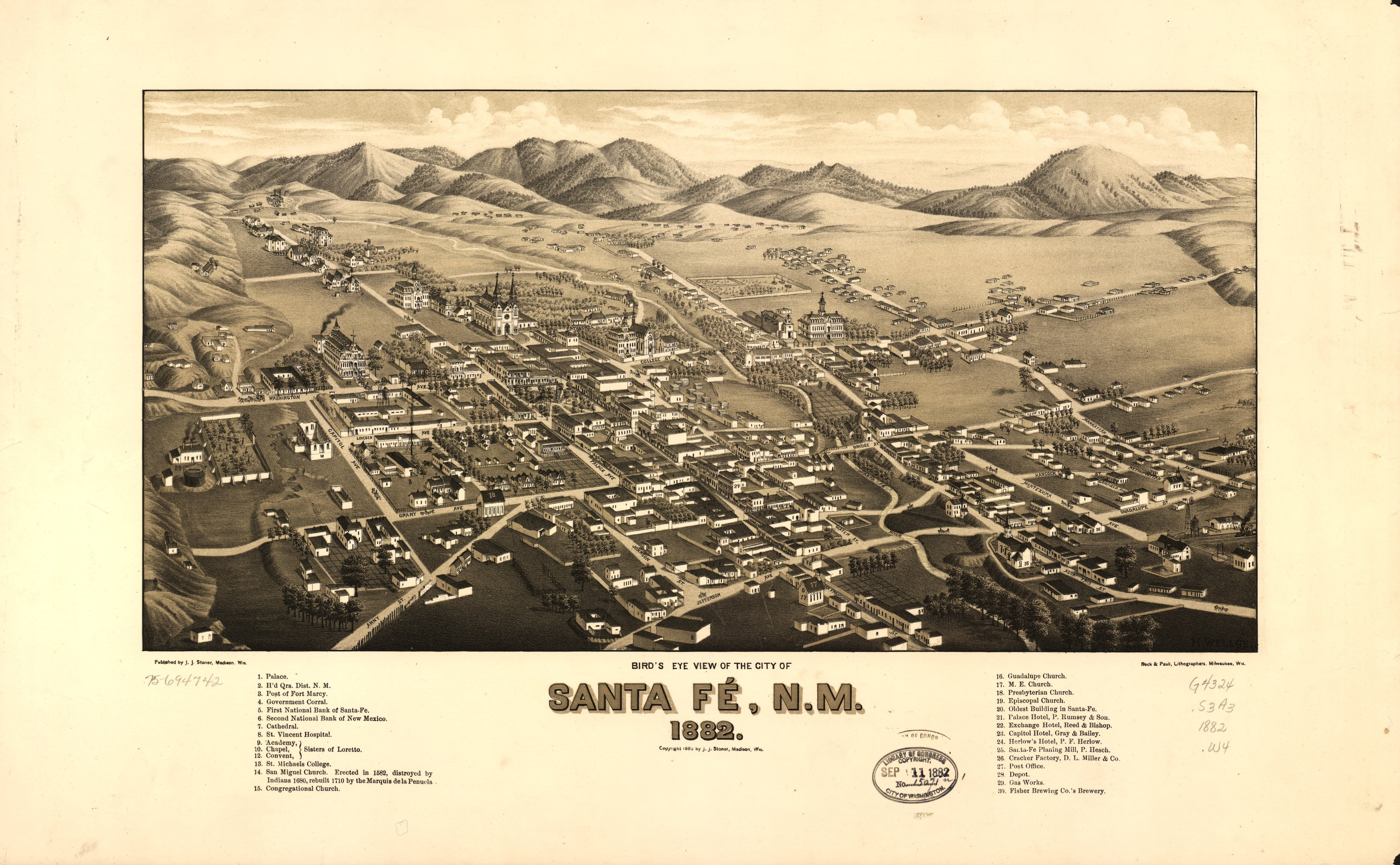 1882 map of Santa Fe, New Mexico